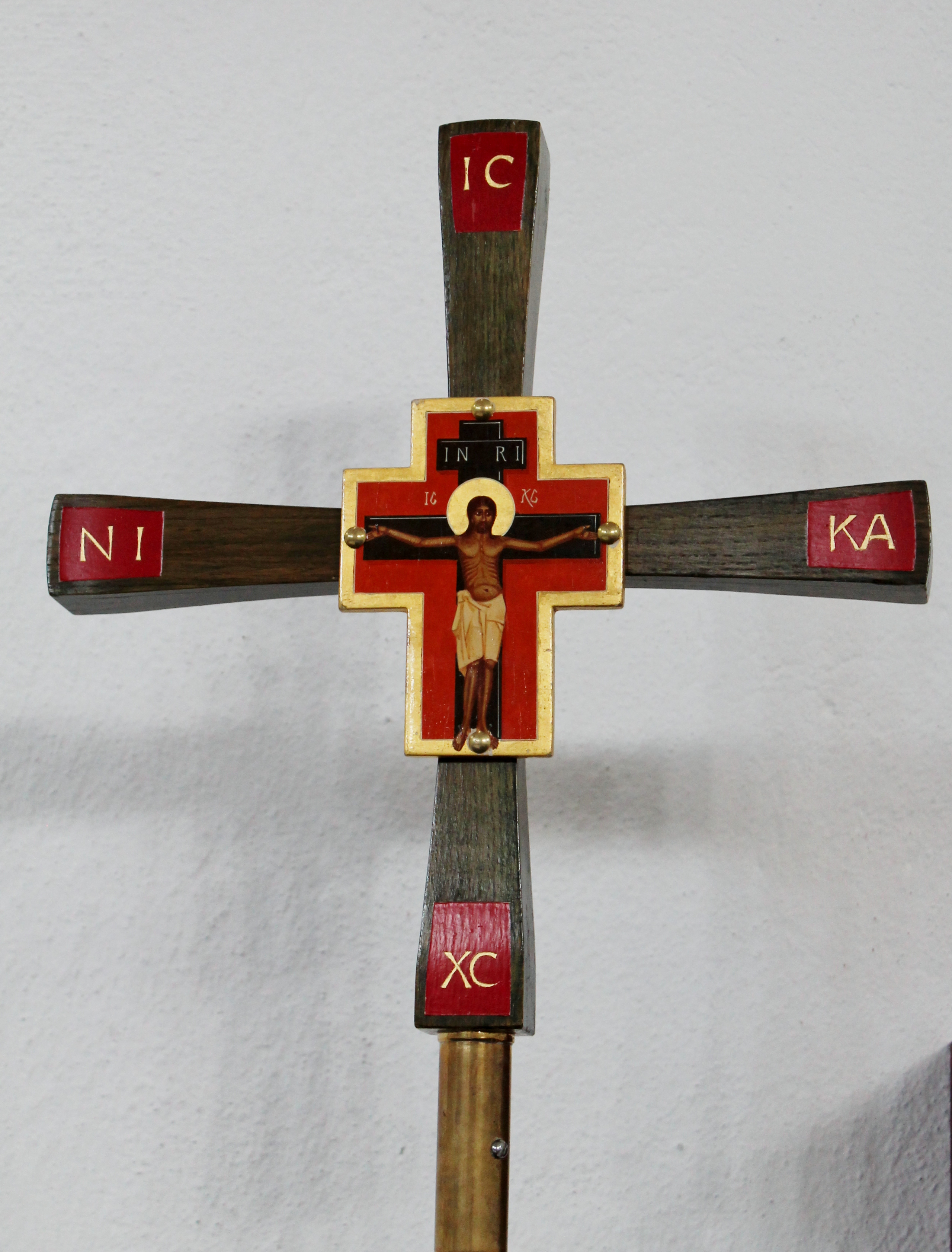 Two sisters' chapel, Kalmar.Processional crucifix.